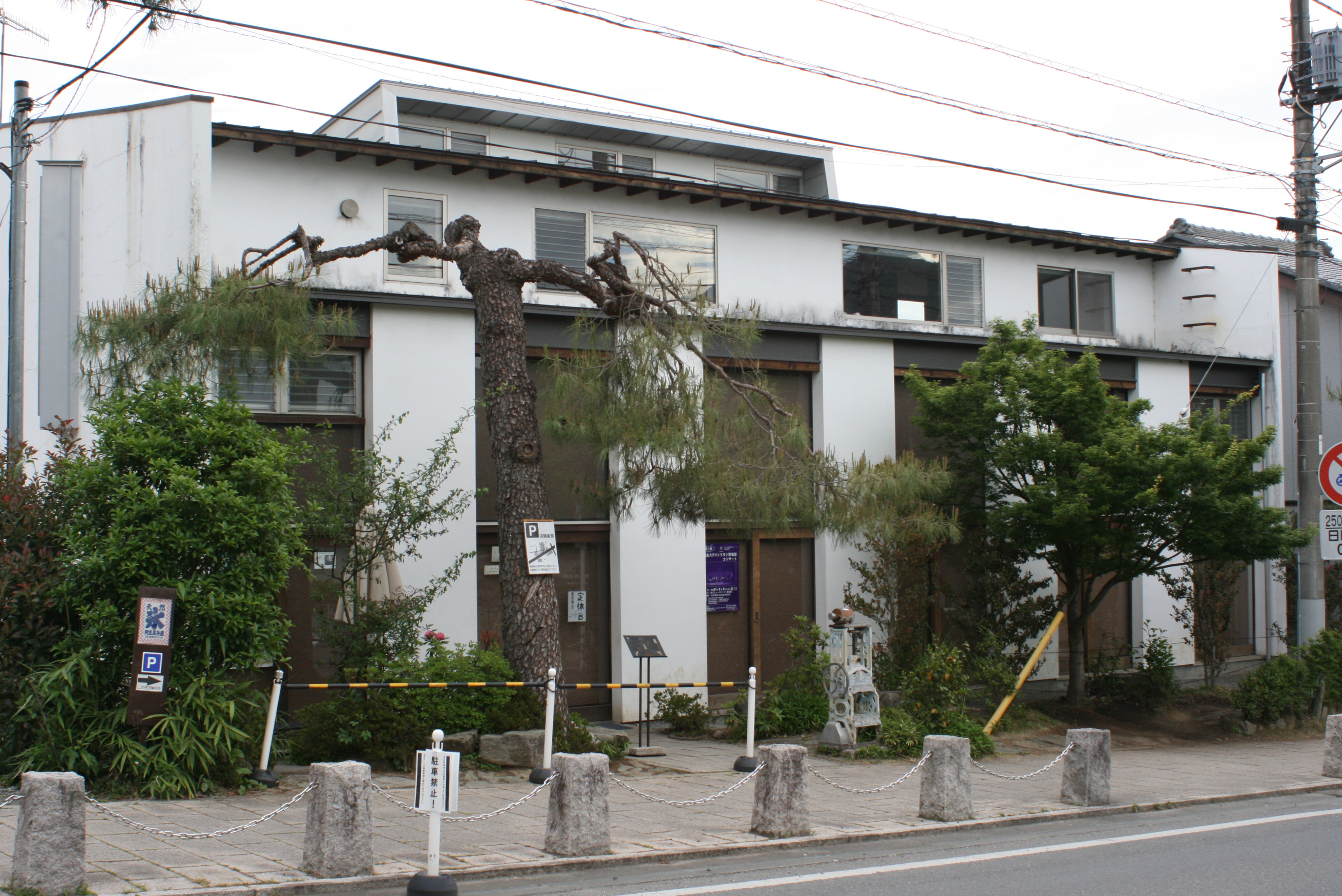 Asami reizou Hodosandou shop which faces on the main street to Hodosan Shrine